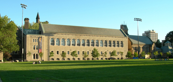 North side of University College in Toronto